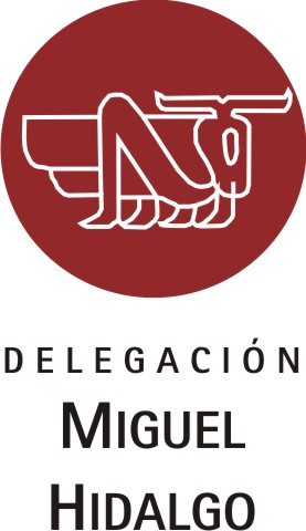 Image based on the official logo of Miguel Hidalgo, Mexico City.